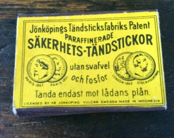 Photo of matchbox